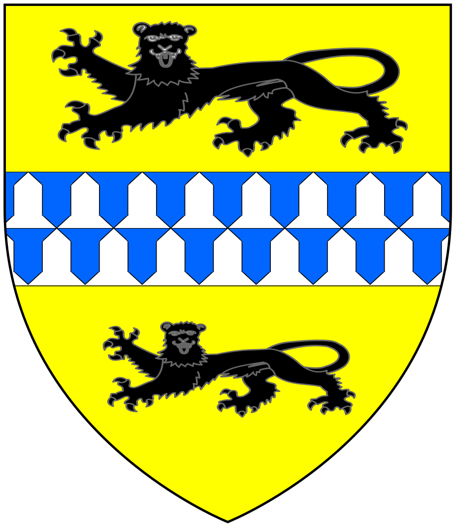 Arms of Hooker alias Vowell, of Exeter: Or, a fess vair between two lions passant guardant sable (Vivian, Lt.Col. J.L., (Ed.) The Visitation of the County of Devon: Comprising the Heralds' Visitations of 1531, 1564 & 1620, Exeter, 1895, p.479)